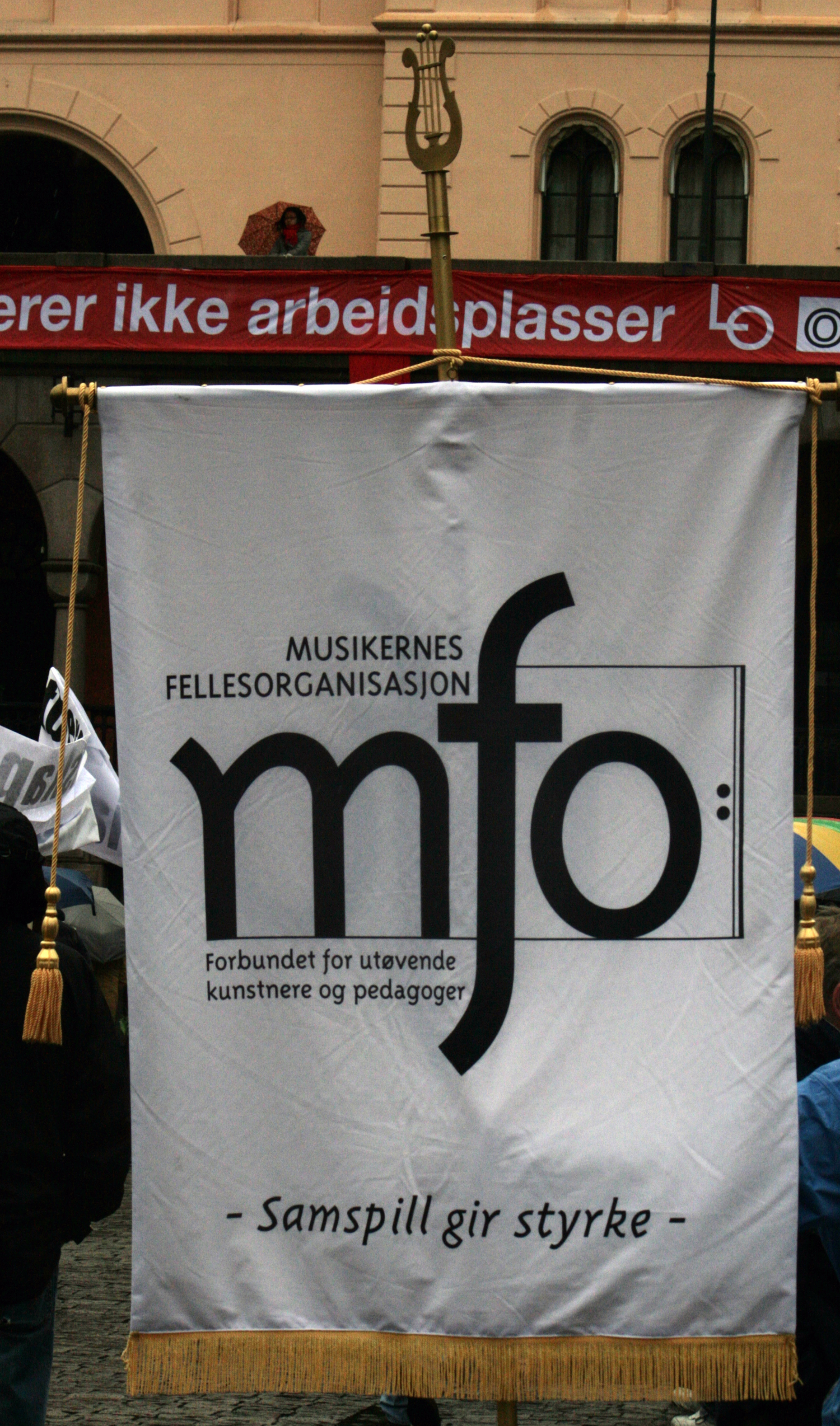 Trade union banner of Musikernes fellesorganisasjon (Musicians' Union of Norway) Norsk (bokmål): Fanen til Musikernes fellesorganisasjon